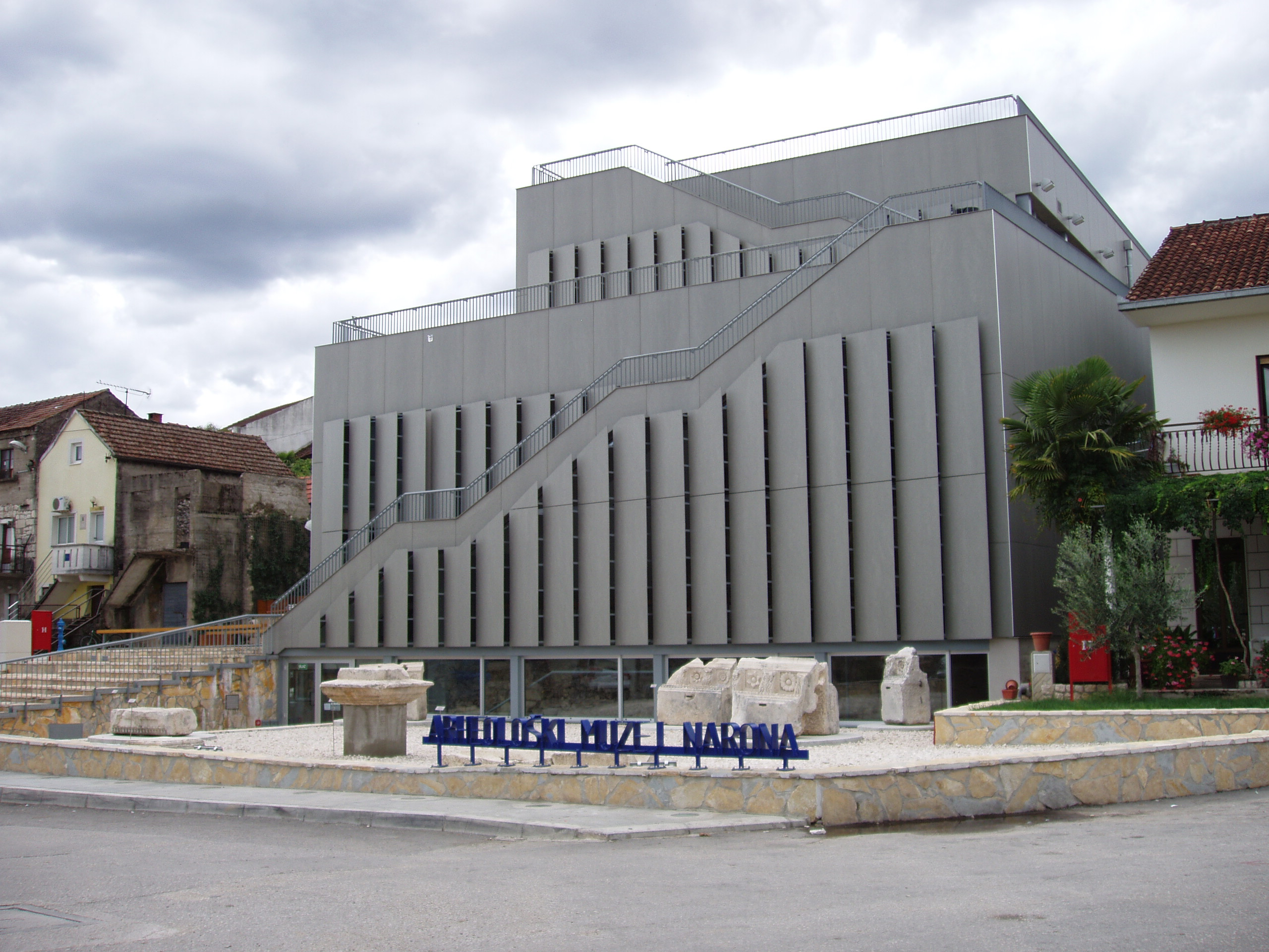 Archaeological Museum Narona in Vid, Croatia